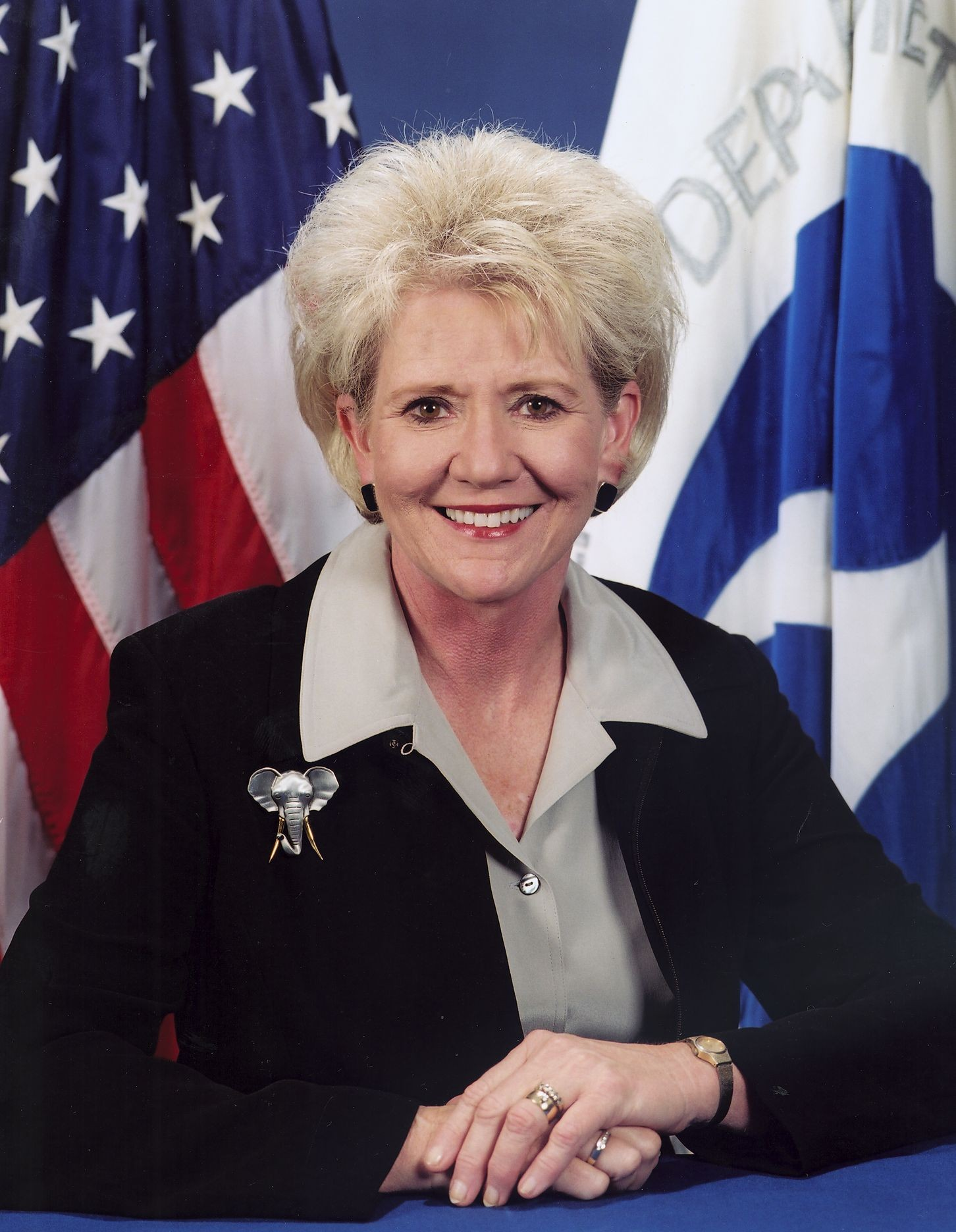 Mary Peters, Secretary of Transportation.